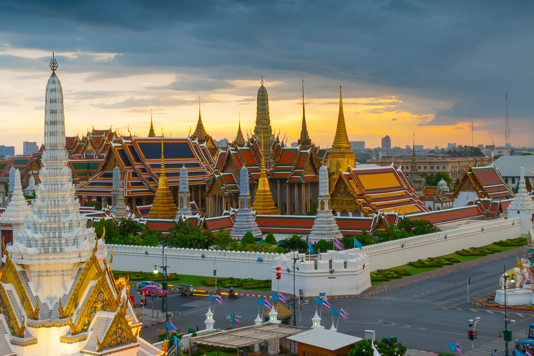 Bangkok City Pillar Shrine (the white building with multi-tier square spire in the front of the picture), Ministry of Defence (the yellow building in the left), the Grand Palace and Wat Phra Si Rattanasatsadaram (the walled group of buildings in the background) and Sanam Luang (the green field in the far right)